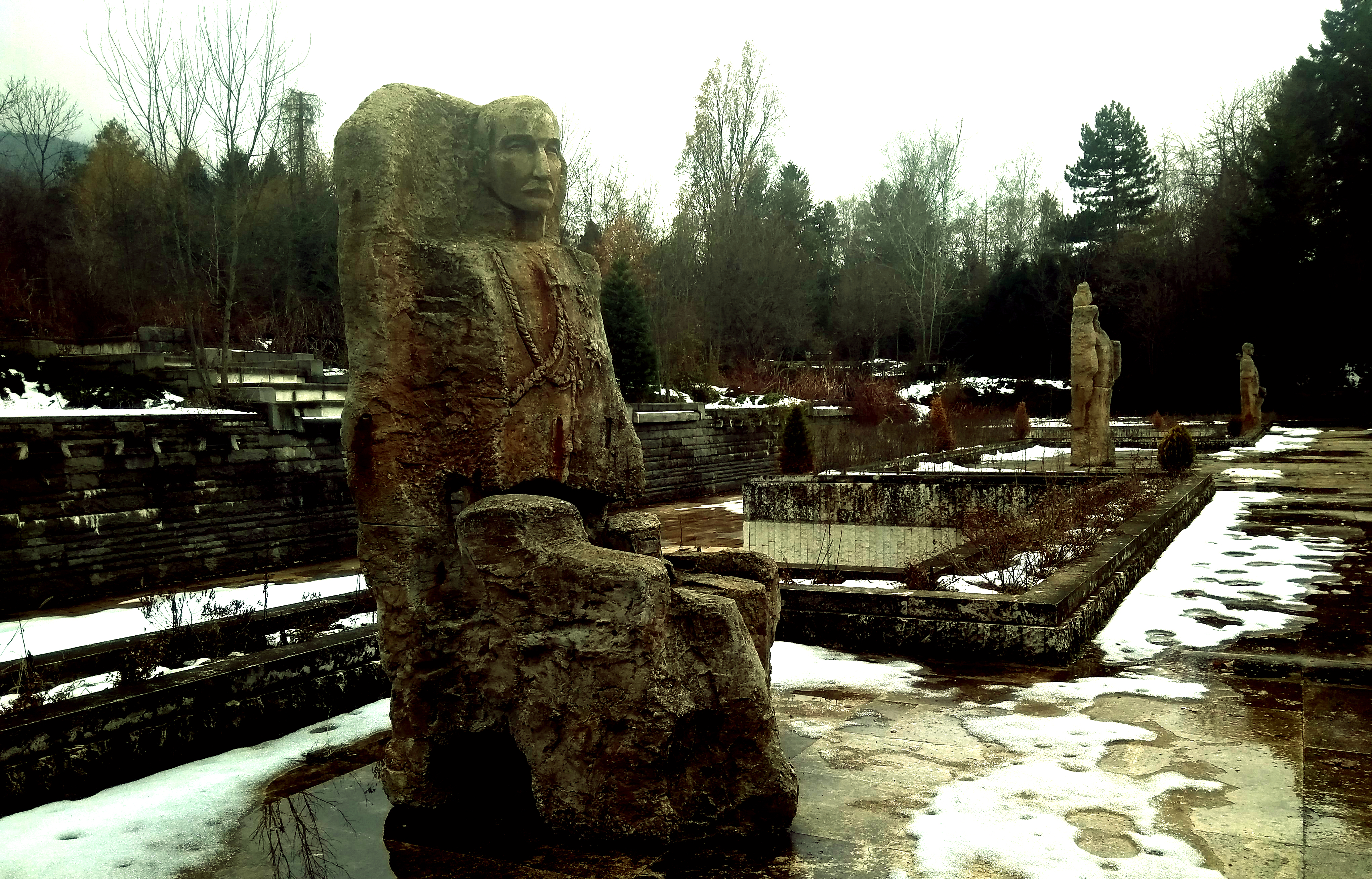 The first statue of Boris III Tzar of Bulgarians (1894 - 1943) erected 73 years after the death of the Tzar, sculptor Kunio Novachev, architect Milomir Boganov. Statue displayed since 2016 in the central open area of the National History Museum of Bulgaria in Sofia.